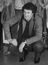 Players of RC Strasbourg